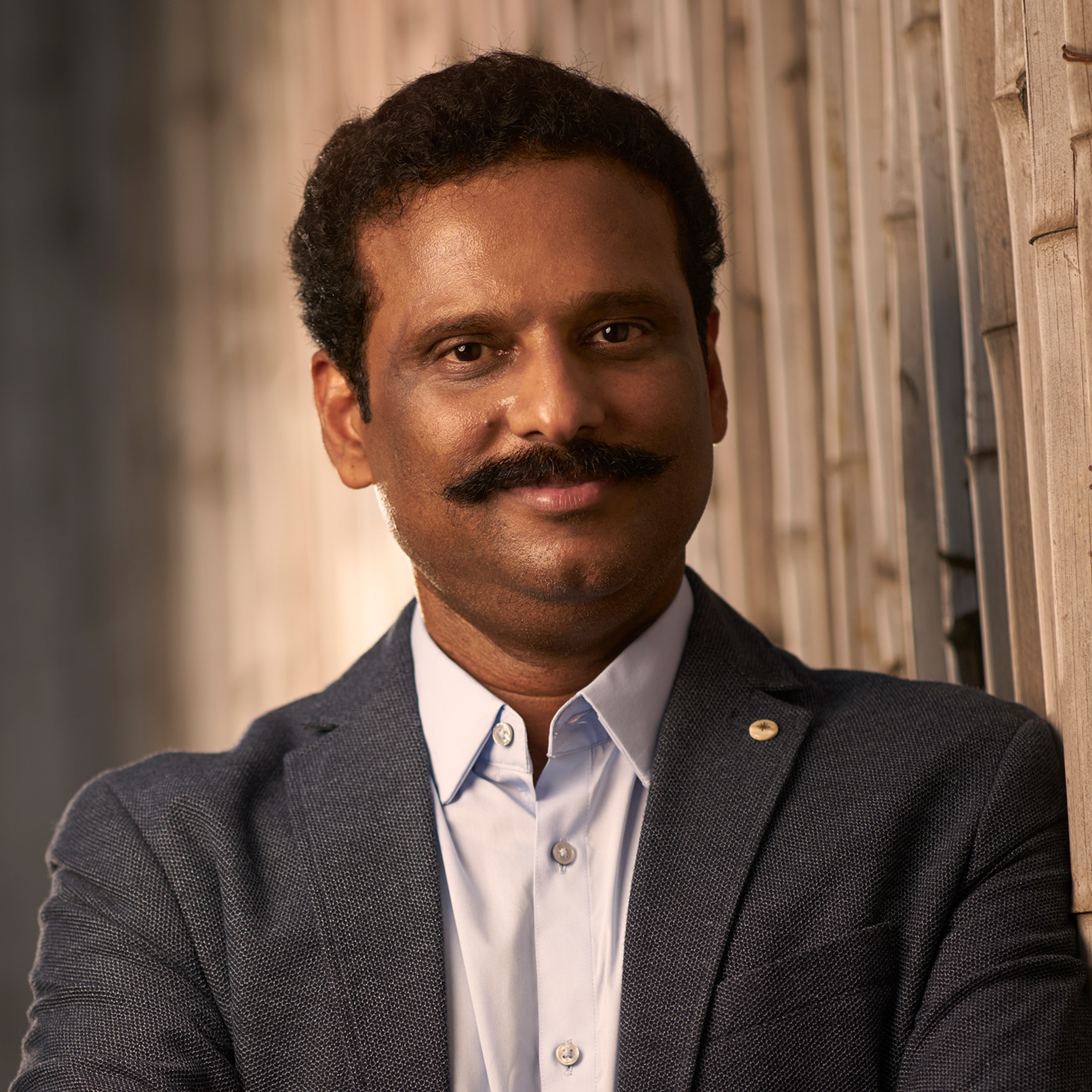 Image of Mr. Suresh Sambandam, CEO of OrangeScape.